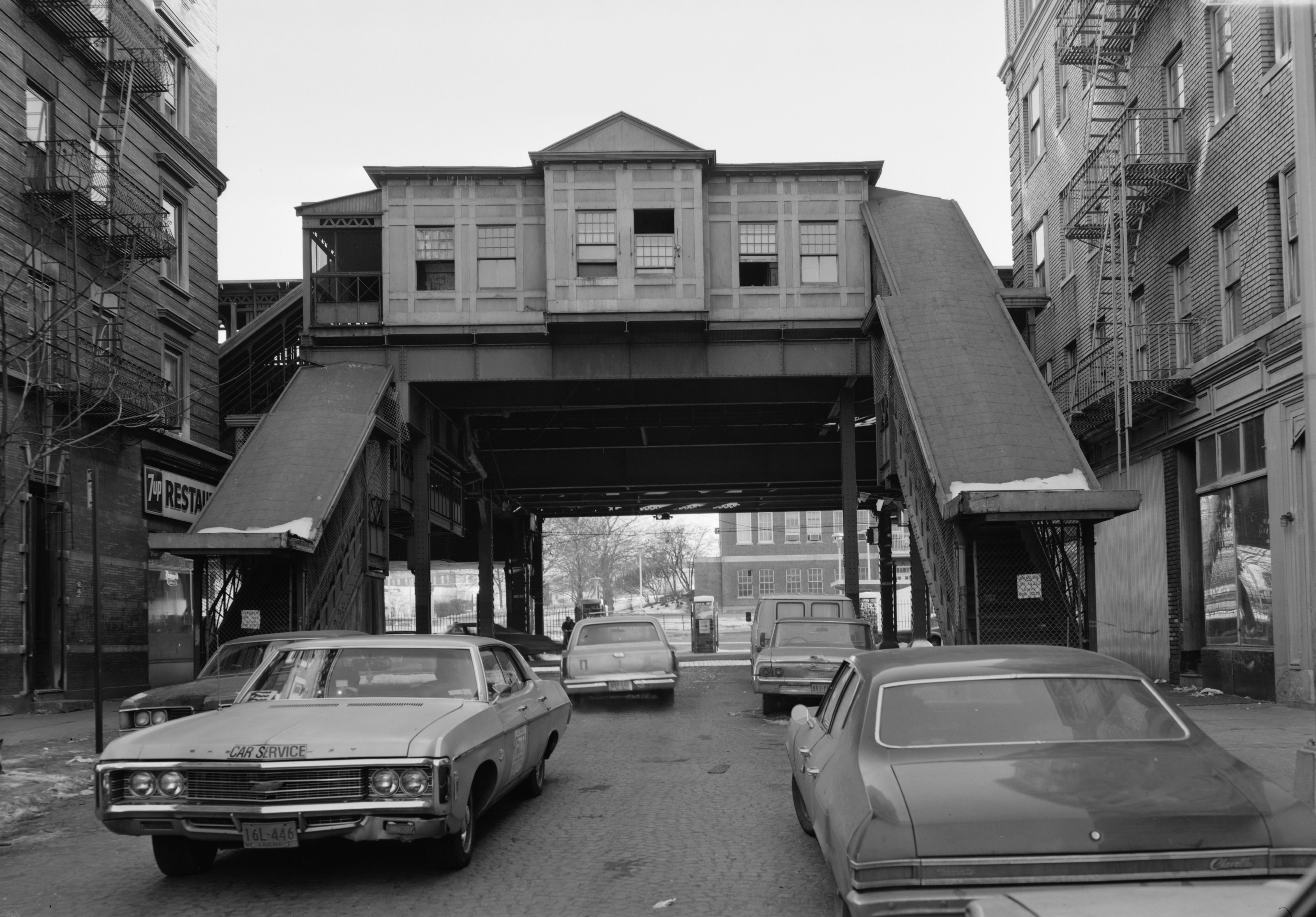 The Third Avenue Line at 183rd Street, a part of the first Subway system constructed in New York City. Photographed by the Historic American Engineering Record between December 1973 and January 1974. Survey number HAER NY-68, photo 65.